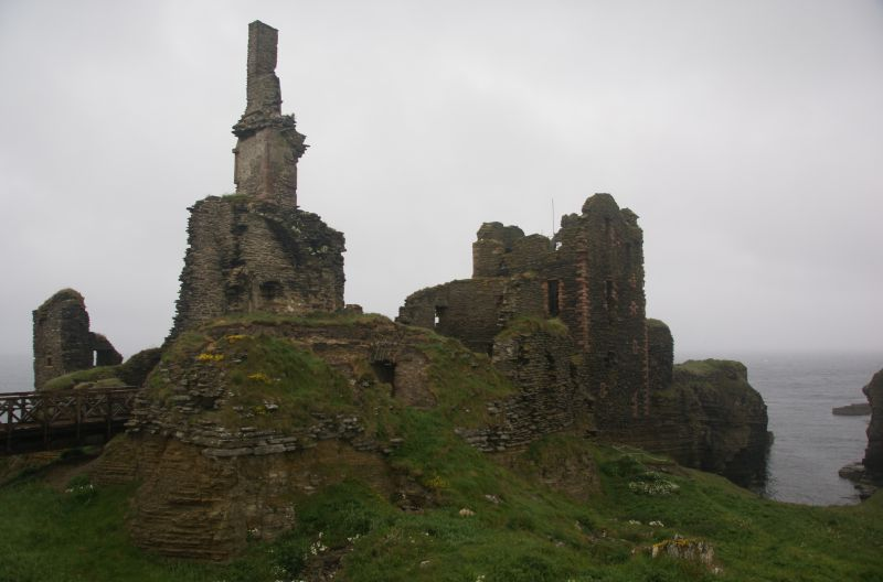 Castle Sinclair Girnigoe, near Wick, Scotland